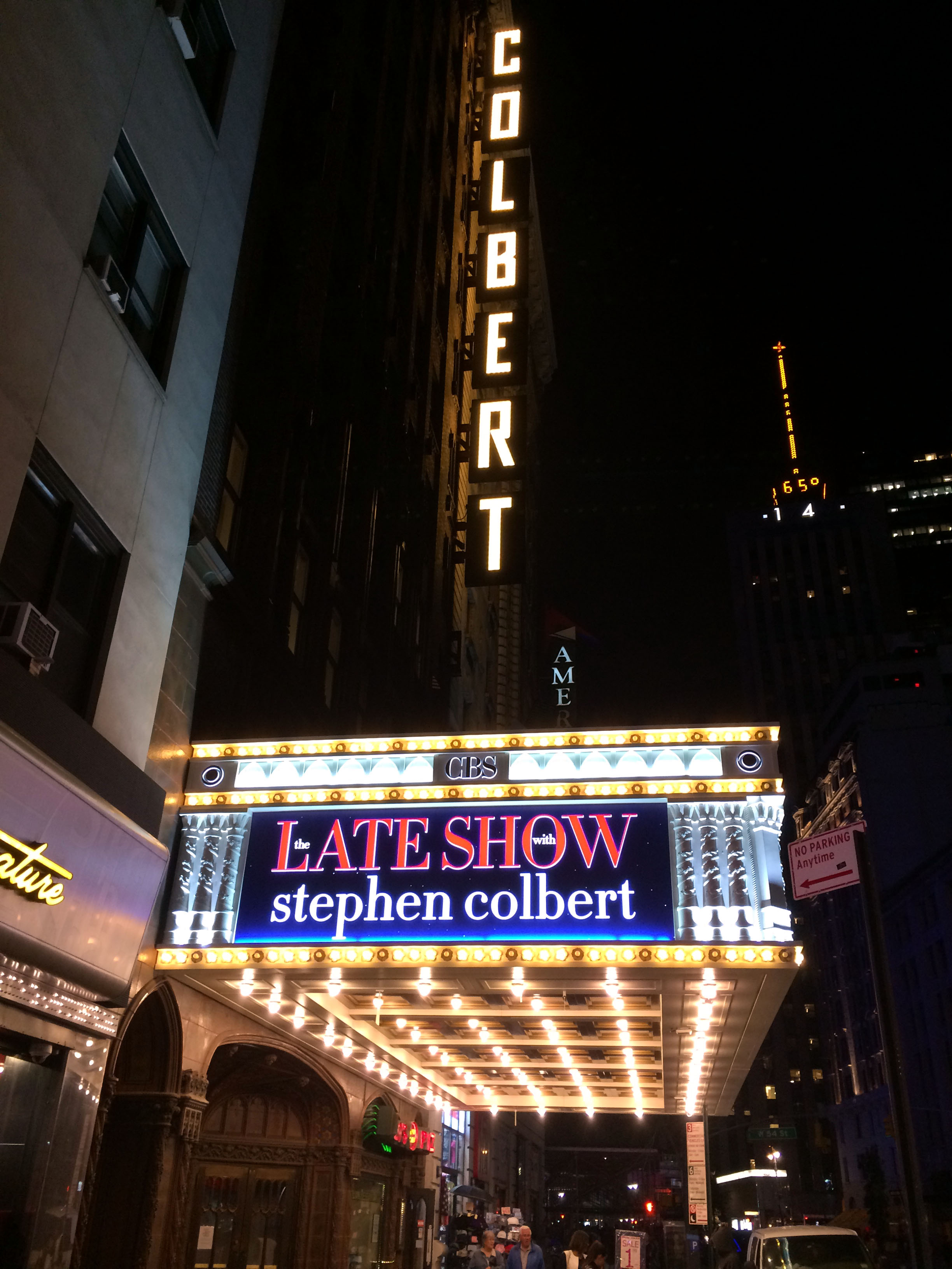 New York City